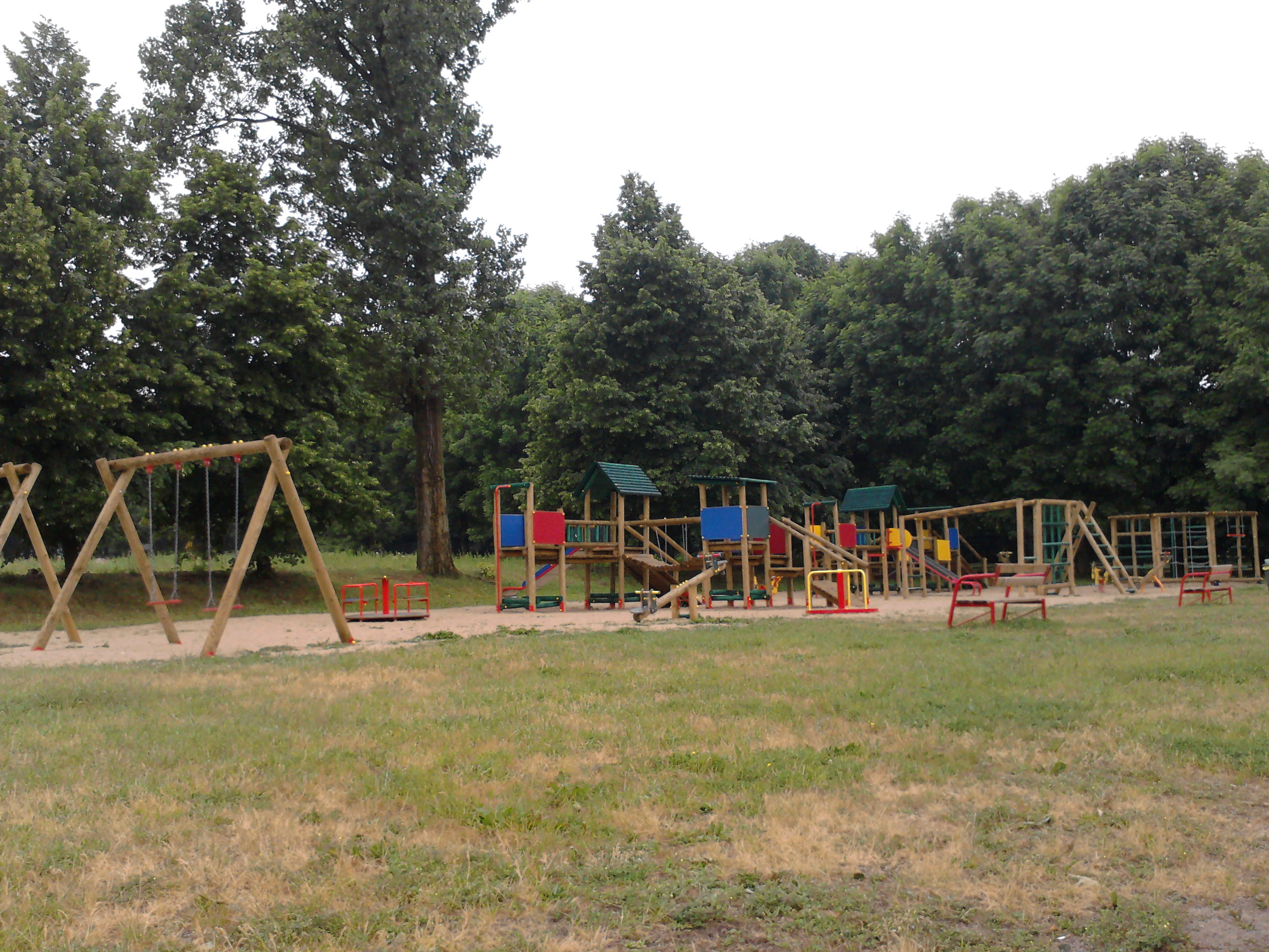 Playground in Wolbórz